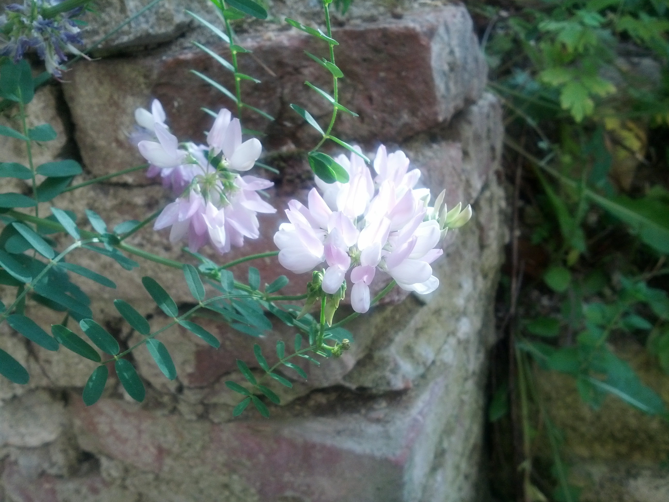 Securigera varia (crown vetch) at the castle ruin Dobra, Austria